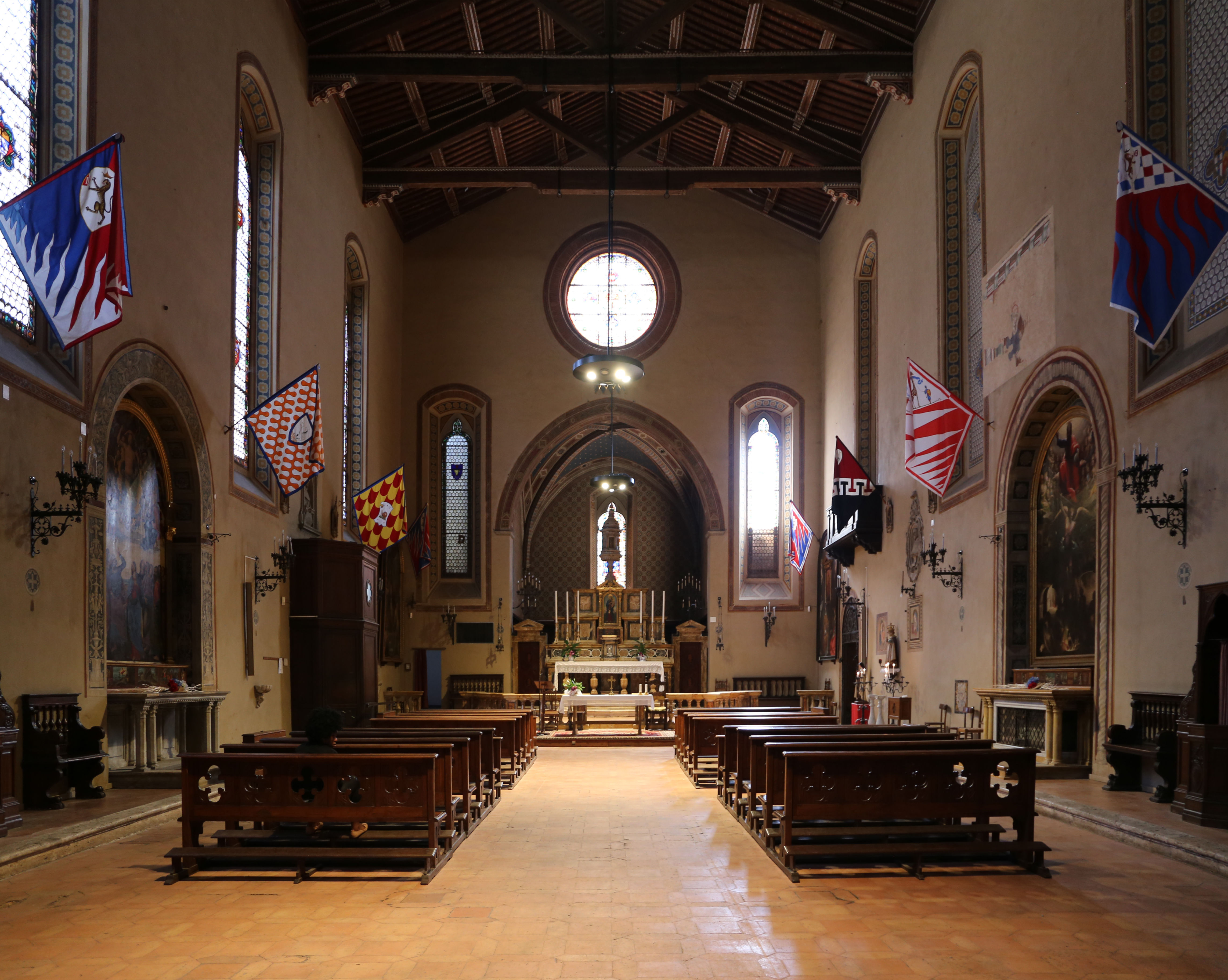 San Niccolò del Carmine (Siena) - Interior